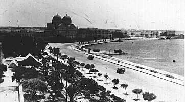 A view of the cathedral of Benghazi (Libya) and corniche of Benghazi during early Italian occupation.